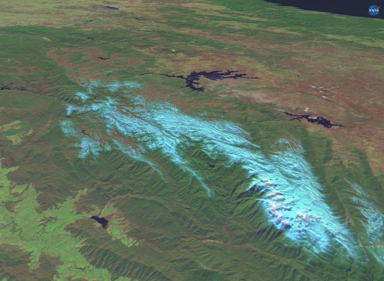 Image of the Snowy Mountains, Australia, generated from Worldwind